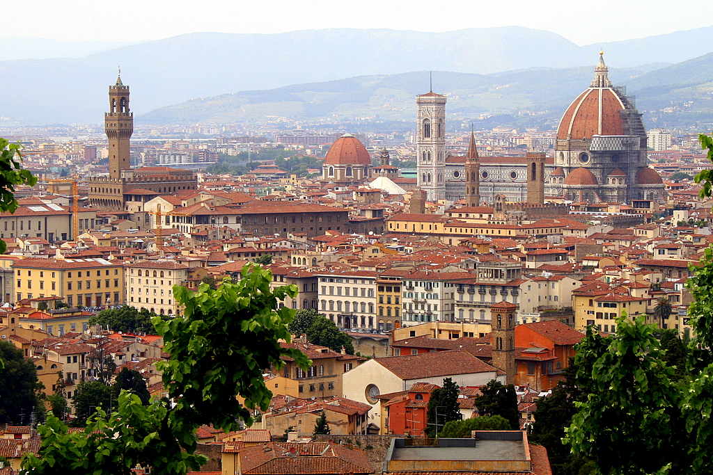 Skyline of Florence with the Florence Cathedral.